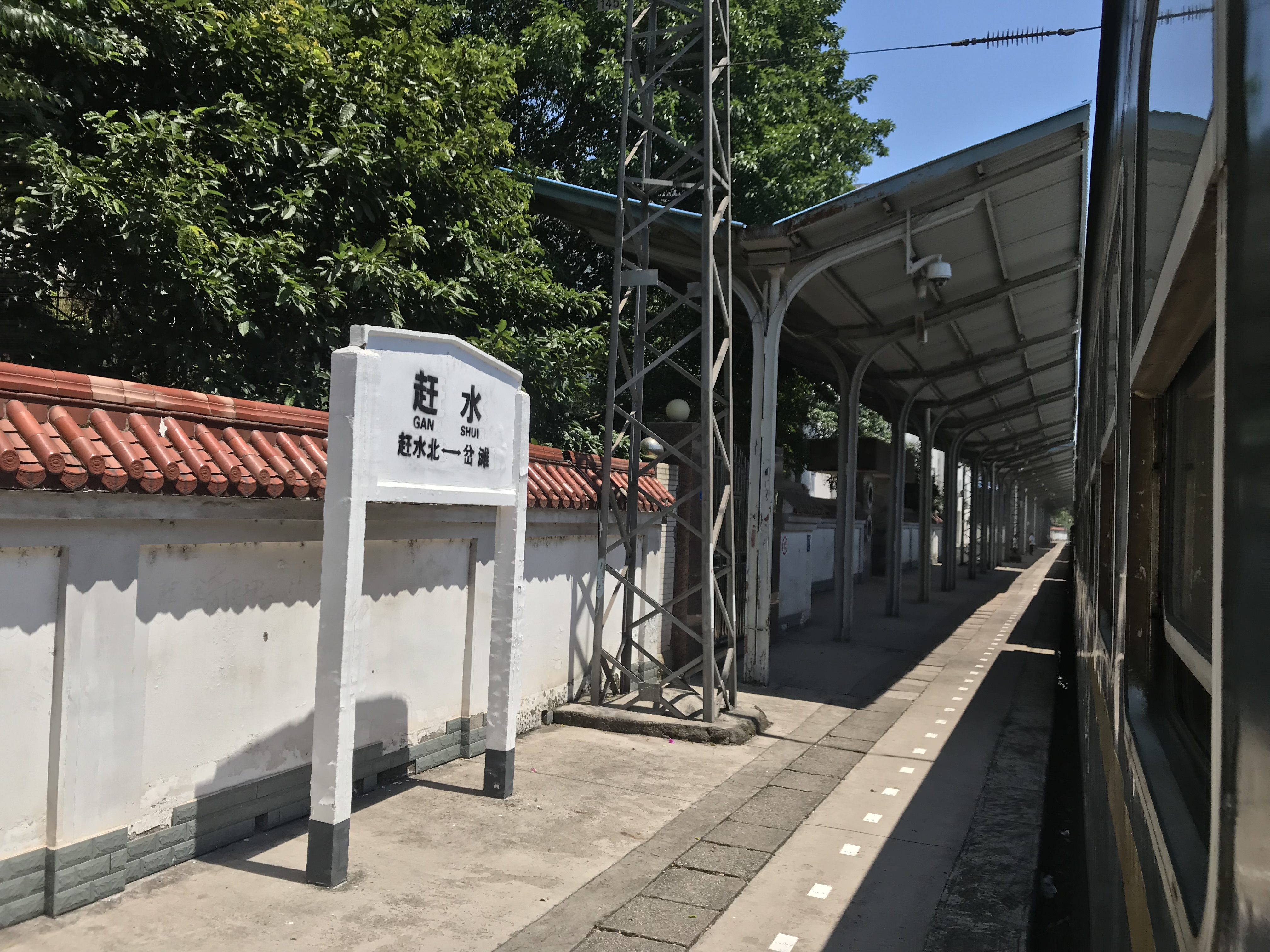 201908 Nameboard on Platform 1 of Ganshui Station